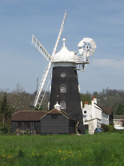 Photograph of Wray Common Mill, Reigate